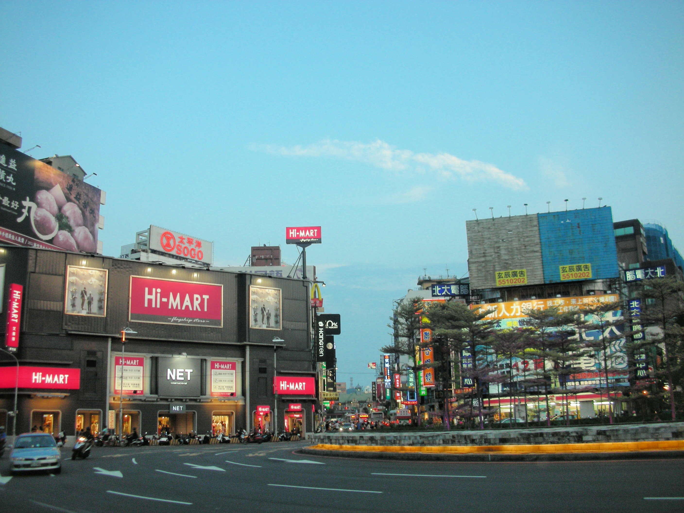 新竹東門圓環 暮色 Hsinchu City, Dawn